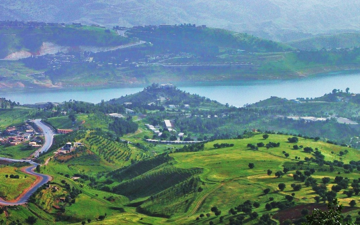 An image of Sulaimani